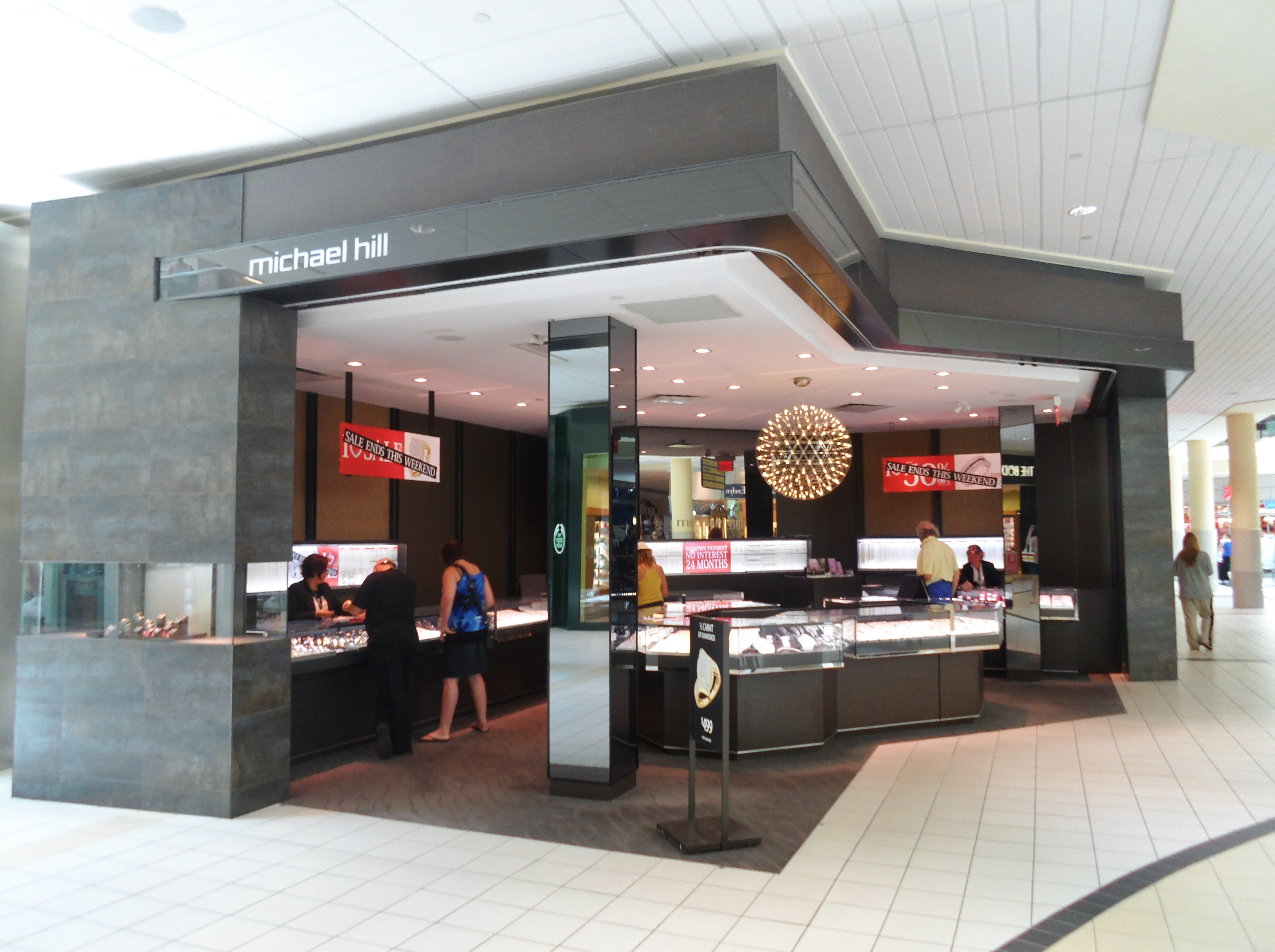 Michael Hill Jeweller store in the Upper Canada Mall, Newmarket, Ontario in 2012.